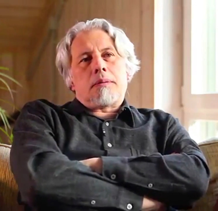 Russian writer Vladimir Sorokin